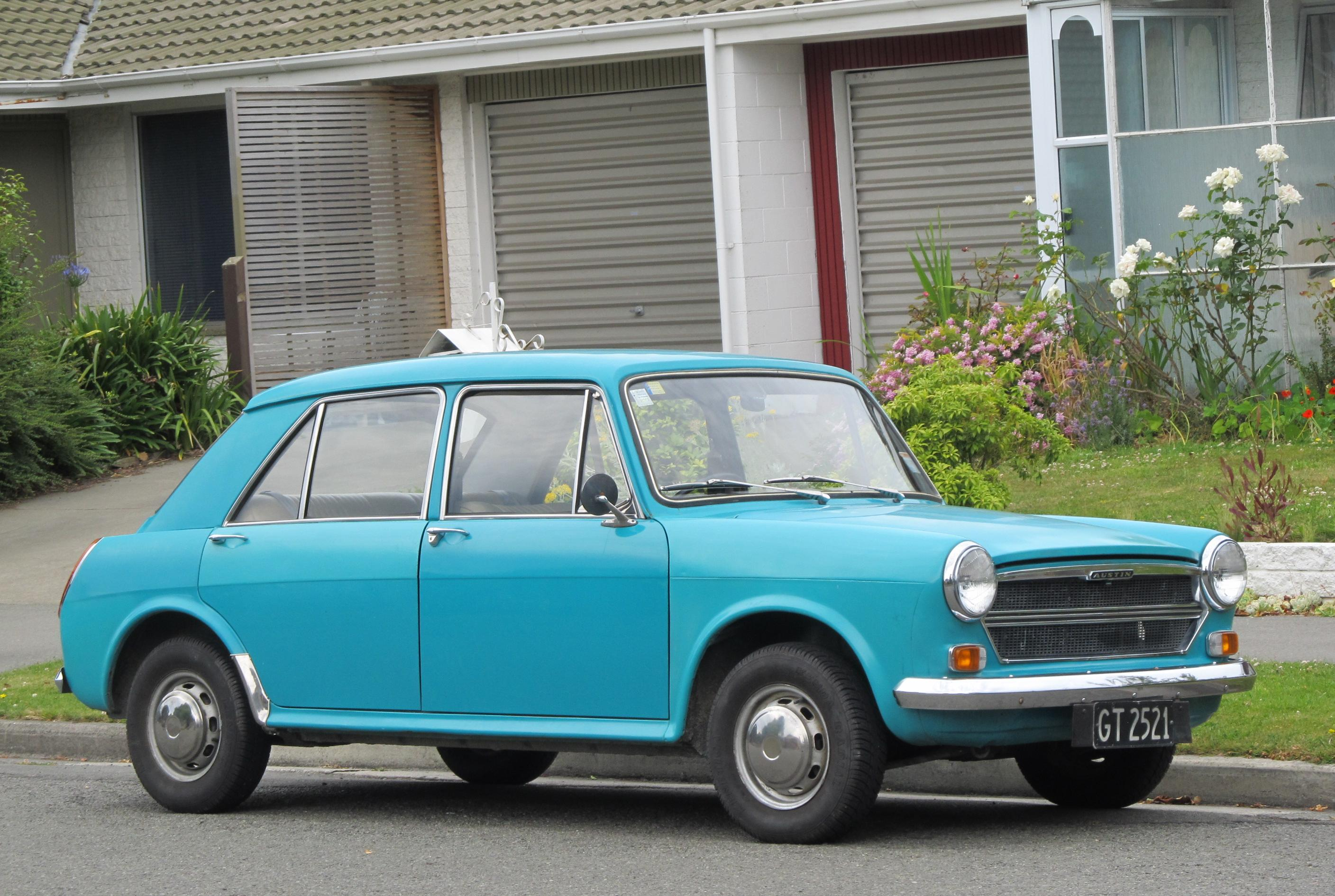 GT2521 A very late one! New Zealand received the 1100/1300 longer than the rest of the world due to incredibly high demand, and the Allegro it was to be replaced by was hardly considered competitive here. This was a minter, and in a fairly uncommon colour. I happened upon it while out walking one rather hot January afternoon...